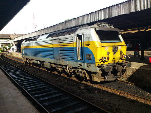 Alstom prima locomotive in sri lanka. M9